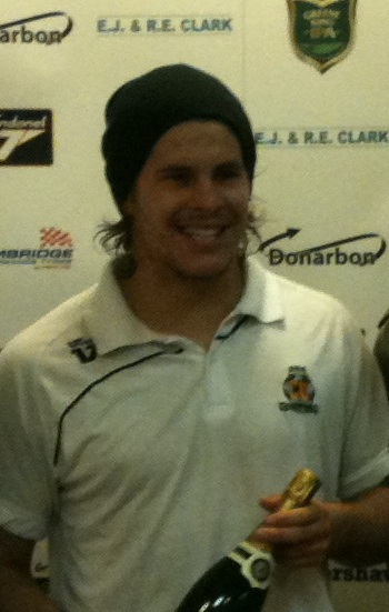 Danny Crow after his Man of the Match award for Cambridge United against Ilkeston Town in the FA Cup First Round